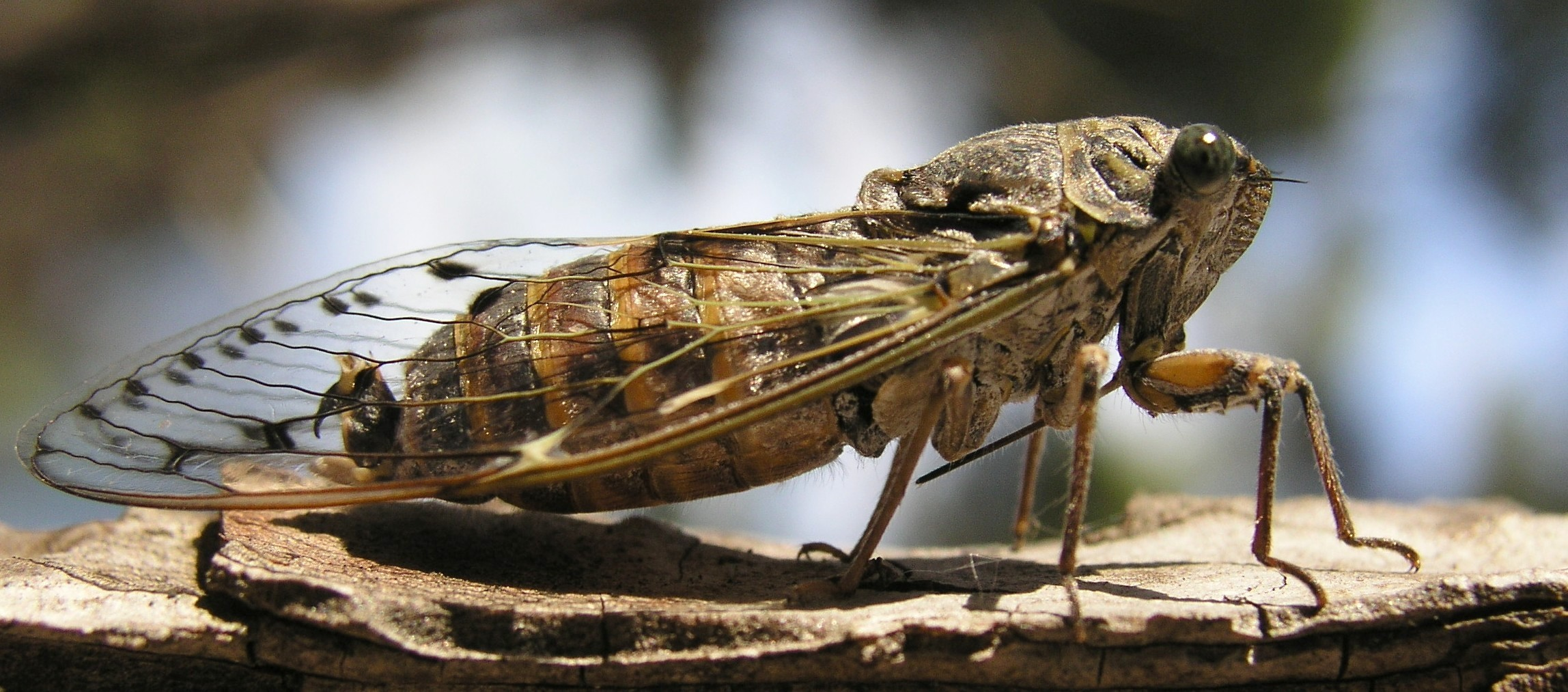 Cicada (Melampsalta montana). Place: Brač Island, Croatia.